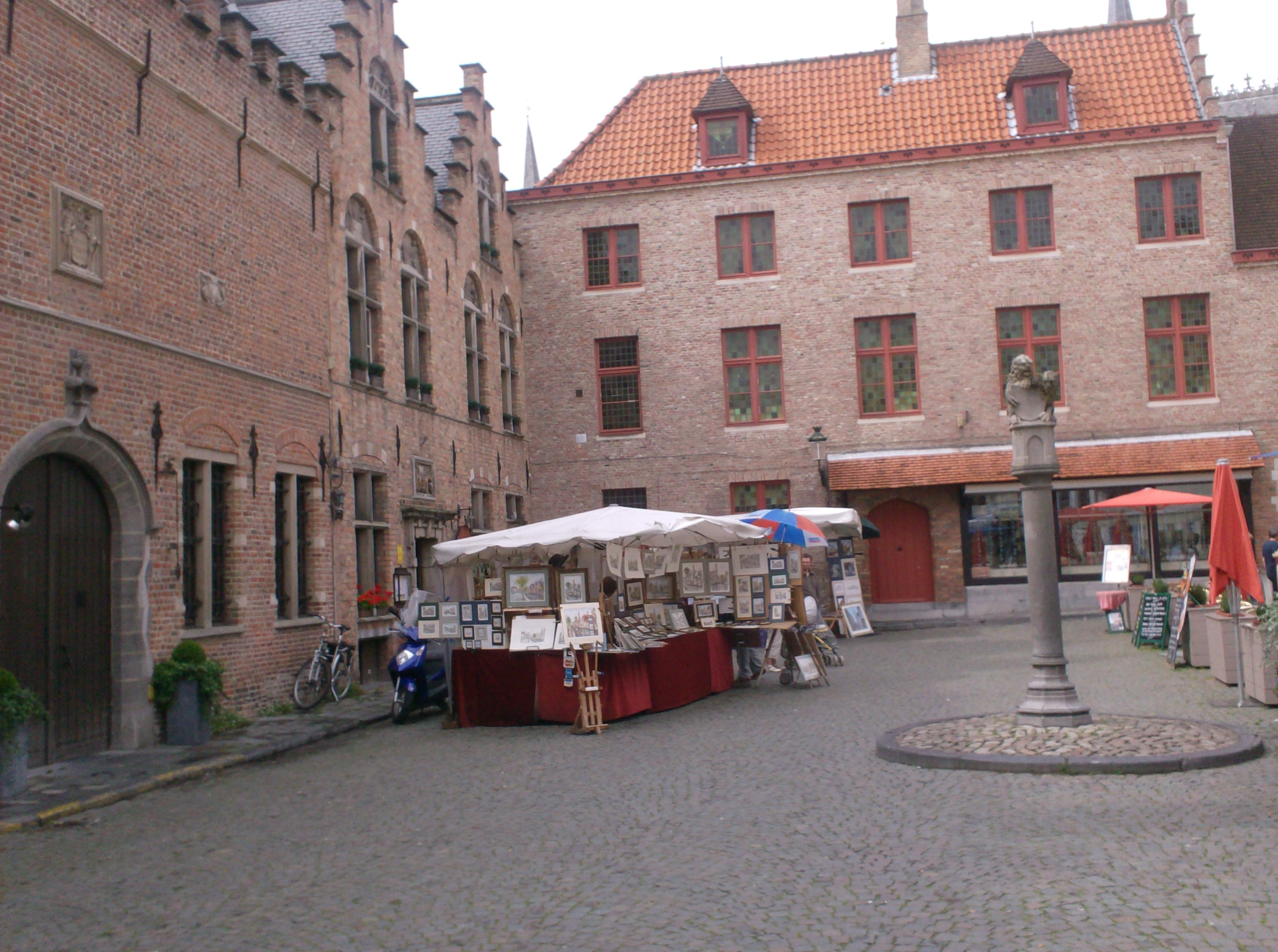 Huidenvettersplein (Tanner's Square) Bruges, Belgium